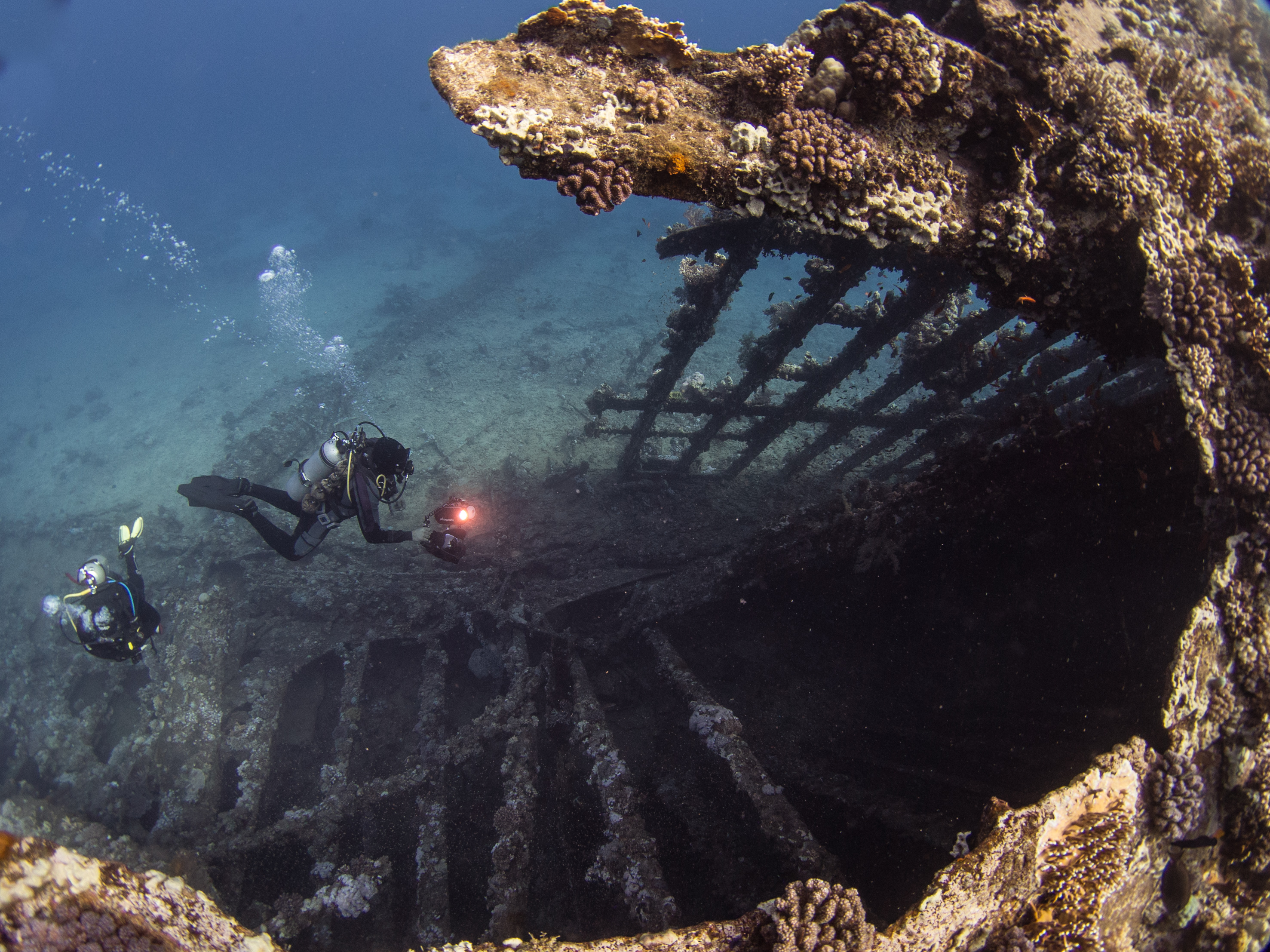 Wreck of the SS Carnatic (built 1862) in the Red Sea, Egypt.